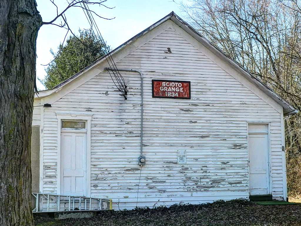 Front of the Scioto Grange No. 1234, located at 255 Cove Road east of Beaver in Scioto Township, Jackson County, Ohio, United States. Built in 1917 as a school and later converted for Grange use, it is listed on the National Register of Historic Places.